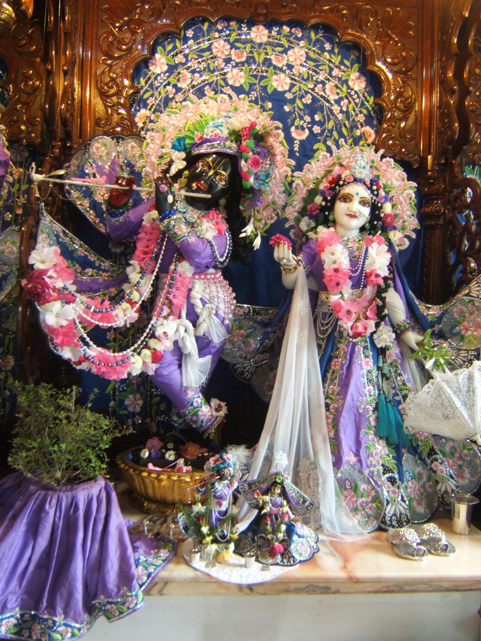 Radha Krishna murtis in New Mayapur Hare Krishna community in the department of Indre in central France